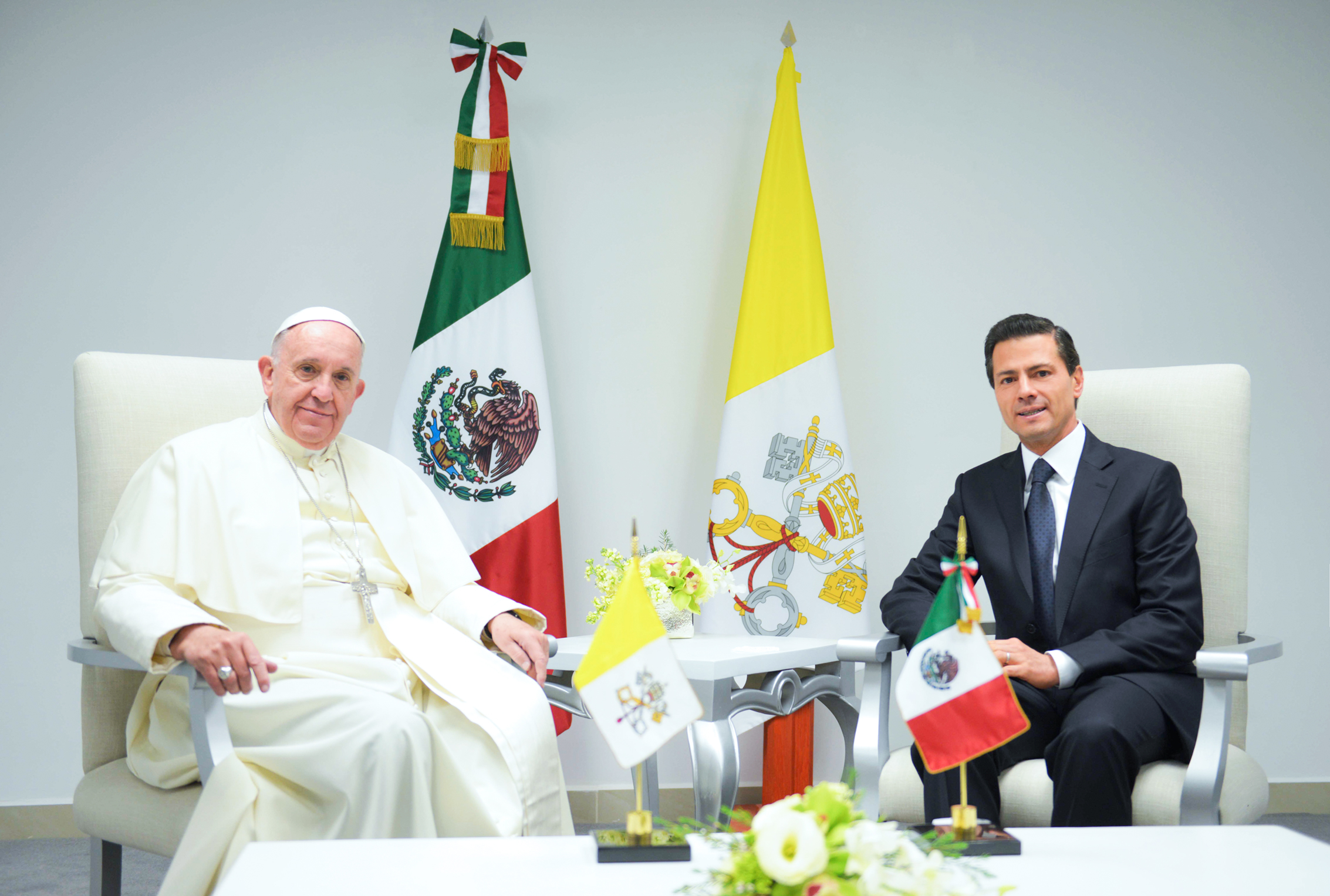 17 de Febrero del 2016